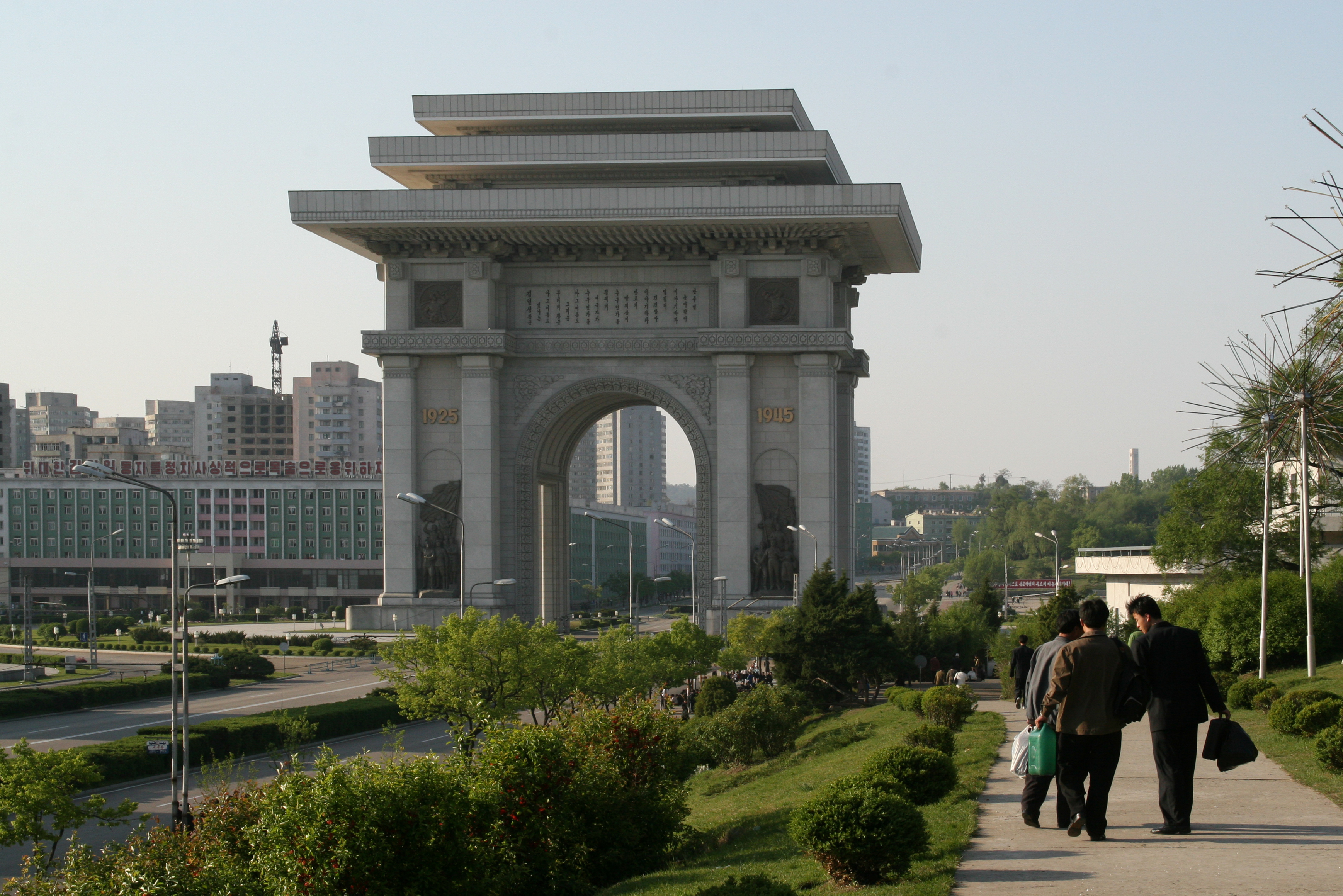 The Arch of Triumph in Pyongyang, North Korea.